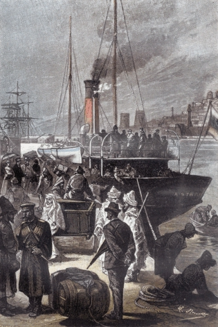 Ilustration of Léona Benetta to novel Claudius Bombarnac.